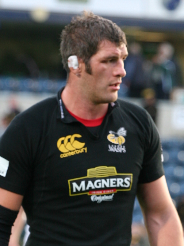 Simon Shaw, English rugby union player, at a London Wasps v. London Irish match.